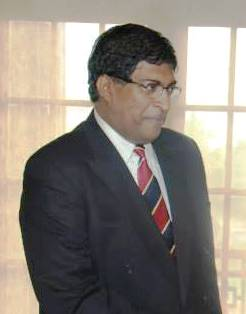 Ravi Karunanayake, Sri Lankan accountant and politician